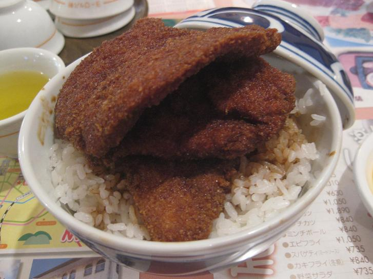 Sause katsudon in Fukui....omg, it's not sause, sauce...